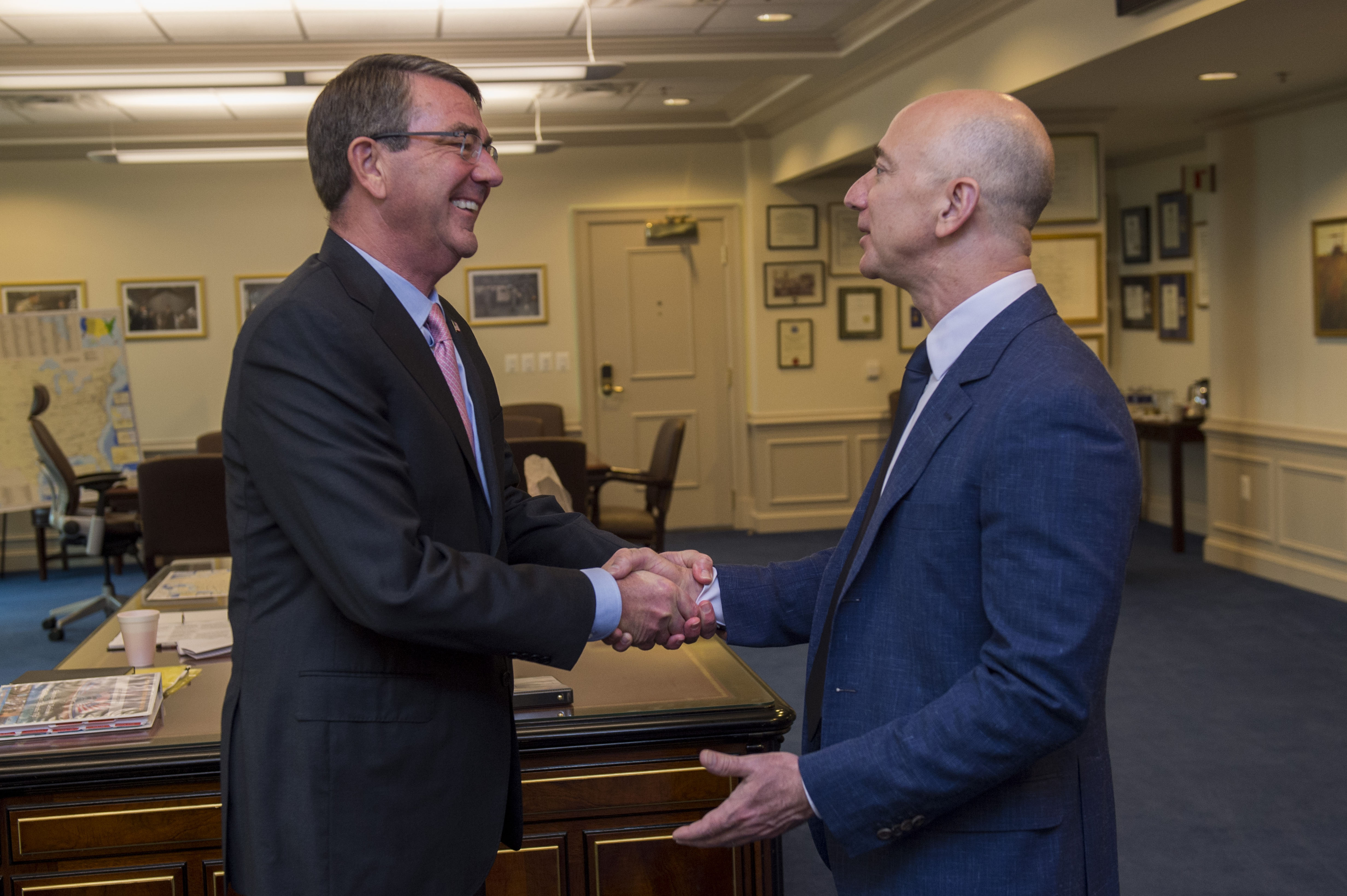 Secretary of Defense Ash Carter greets Jeff Bezos, Founder, Chairman & CEO of as he arrives at the Pentagon for a visit May 5, 2016.